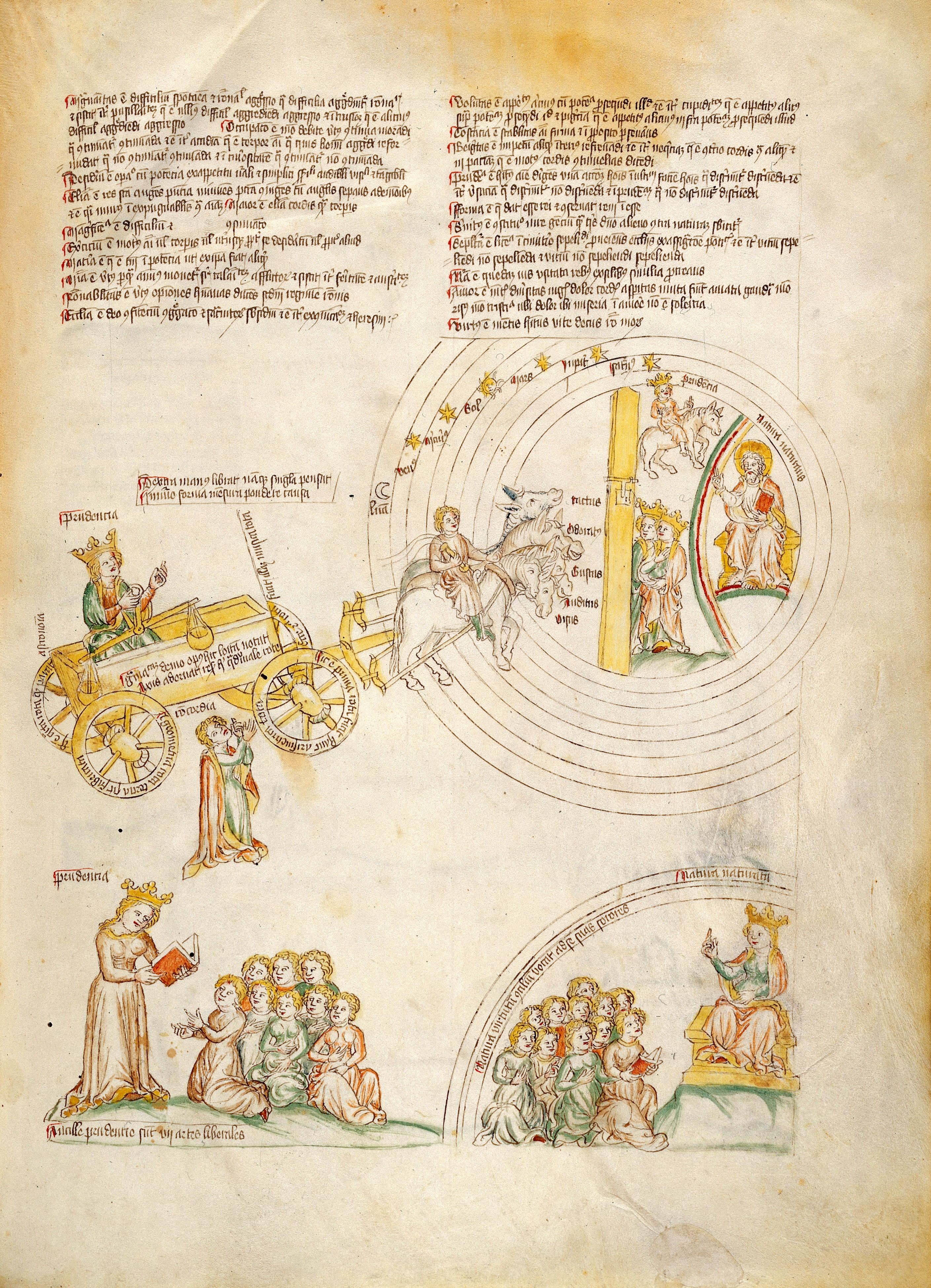 The crowned Prudencia, carrying scales, rides a wagon. Concordia puts the finishing touches on the wagon. The wagon is seen riding through the heavens - concentric circles with the sun, moon and five planets - to the door of heaven. Once inside Prudencia rides alone, on one horse, towards the enthroned God. - Prudencia, with a book,, addresses eight young women seated upon the ground. - Prudencia enthroned speaks to eleven your women seated upon the ground Archives & Manuscripts Keywords: apocalypsis; Medieval; Middle Ages